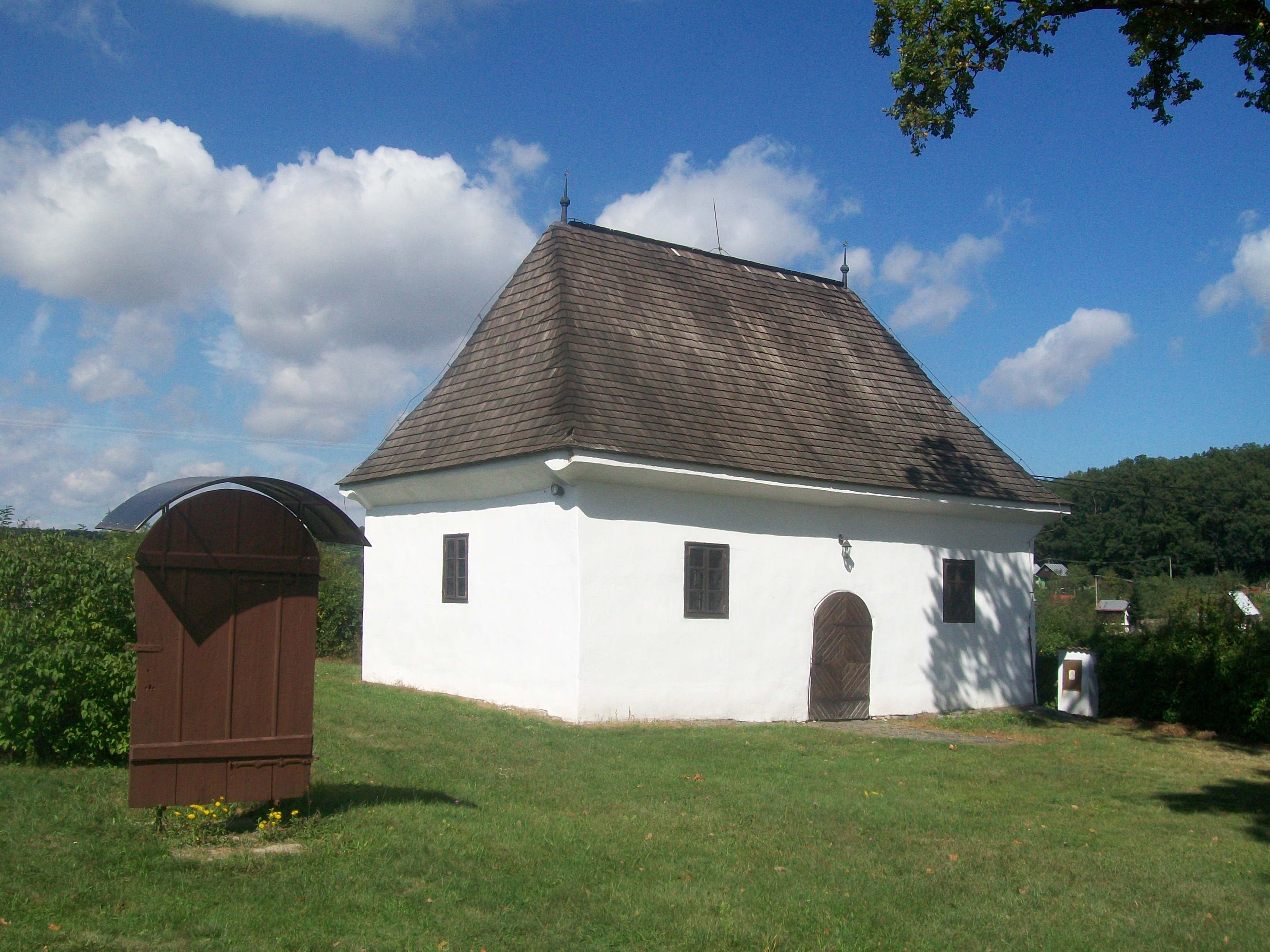 Church in Dúžava (Rimavská Sobota)